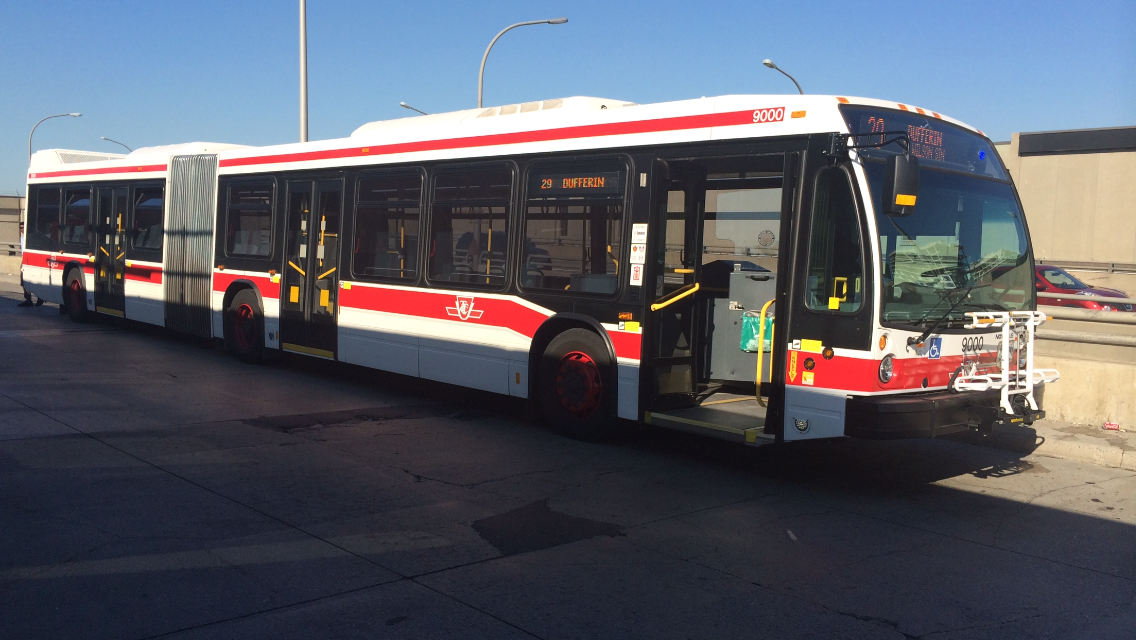 TTC's Novabus LFS Artic 9000 on Route 29 Dufferin, on layover